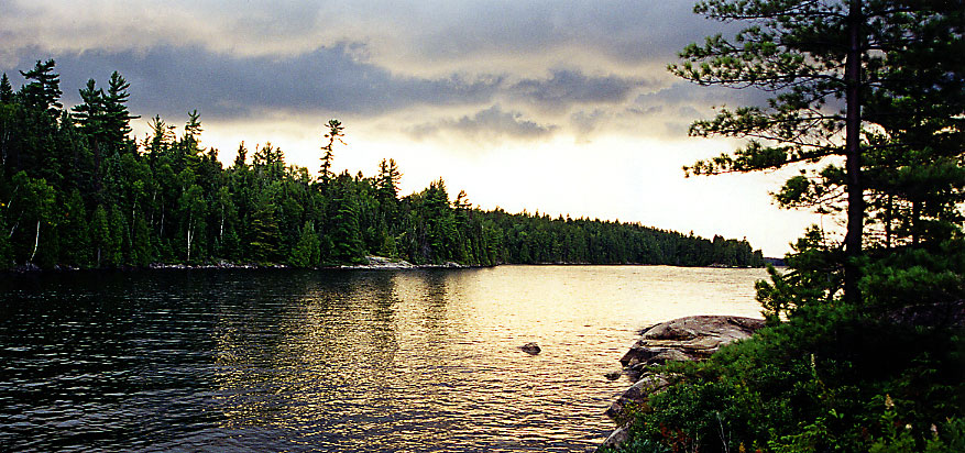 Anima Nipissing Lake - Temagami, Ontario, Canada